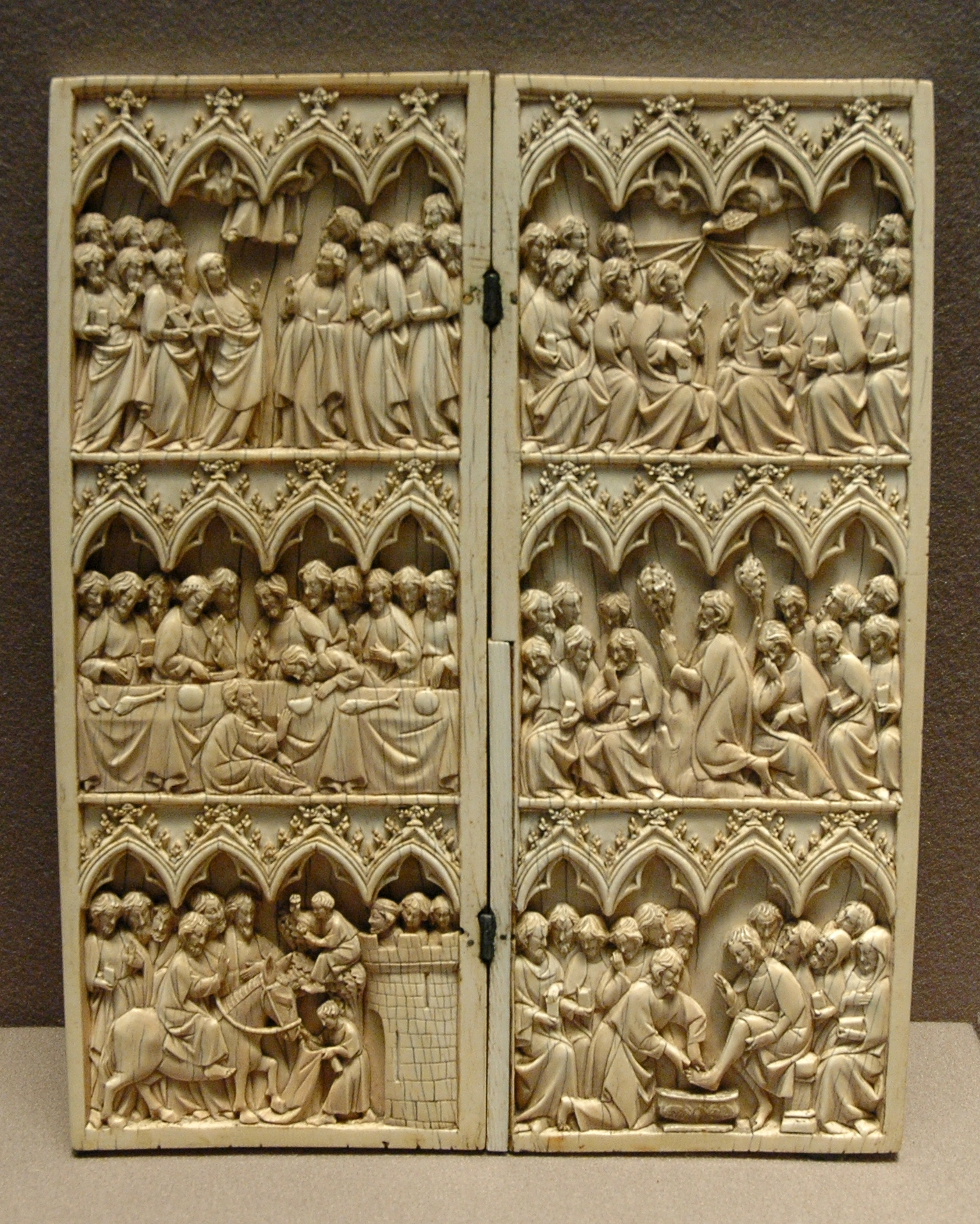 Scenes of the Passion of Jesus Christ, Ascension and Pentecost, ivory panel from Paris, second quarter of the 14th century.